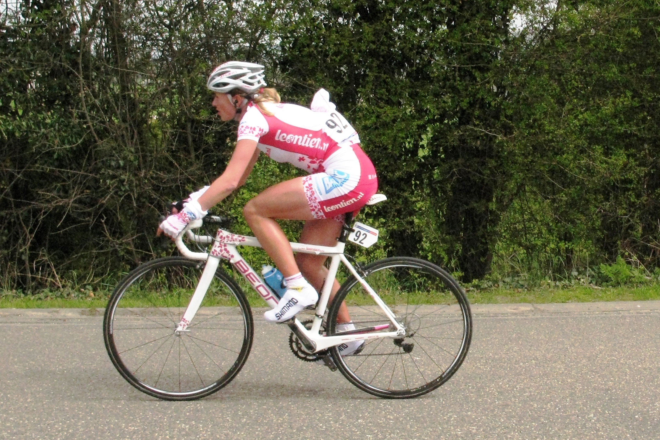 Andrea Bosman uphill in Marchin at the Flèche Wallonne Féminine 2010